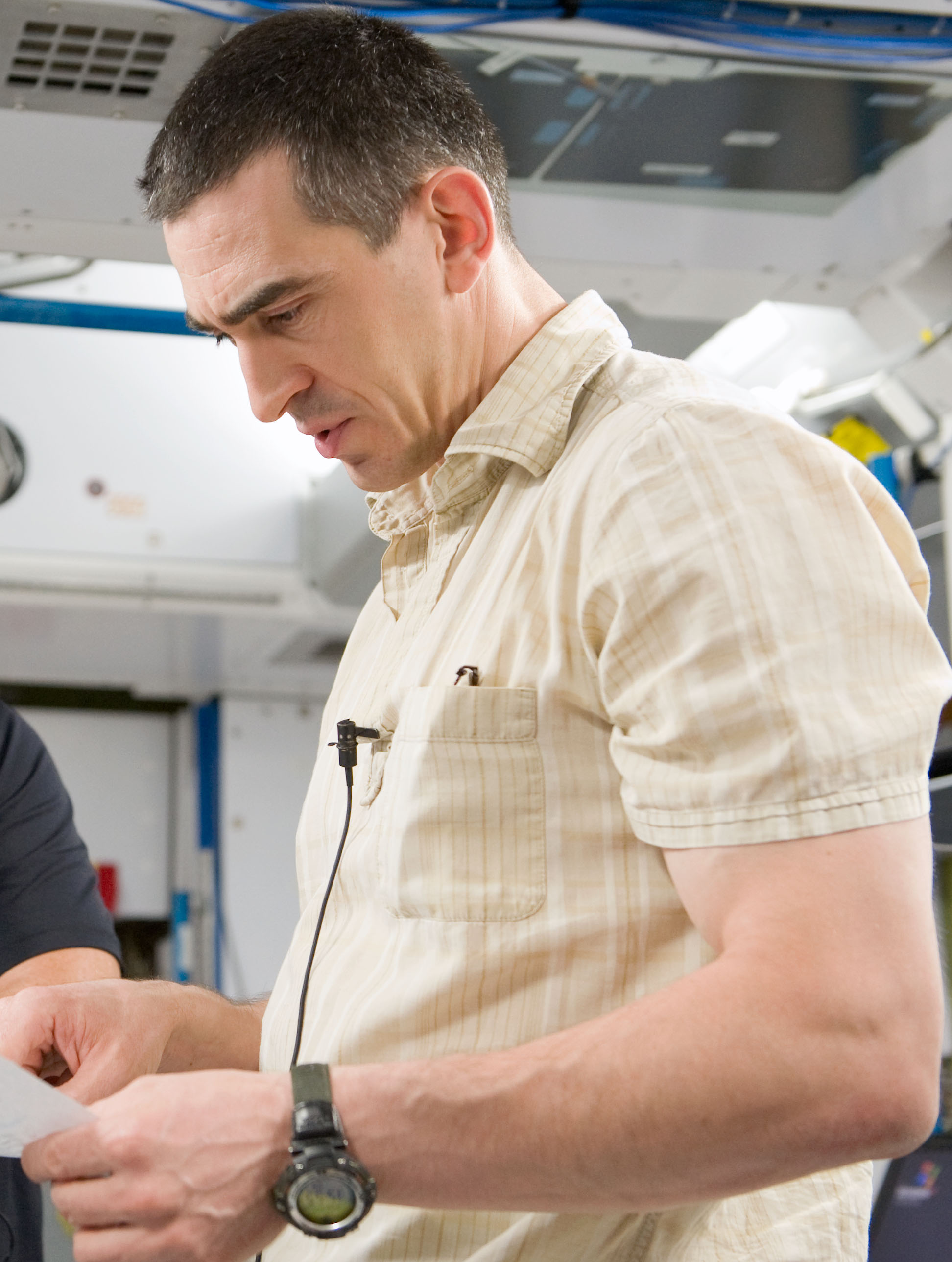 Russian cosmonaut Anatoly Ivanishin, Expedition 29/30 flight engineer, participates in a routine operations training session in an International Space Station mock-up/trainer in the Space Vehicle Mock-up Facility at NASA's Johnson Space Center.